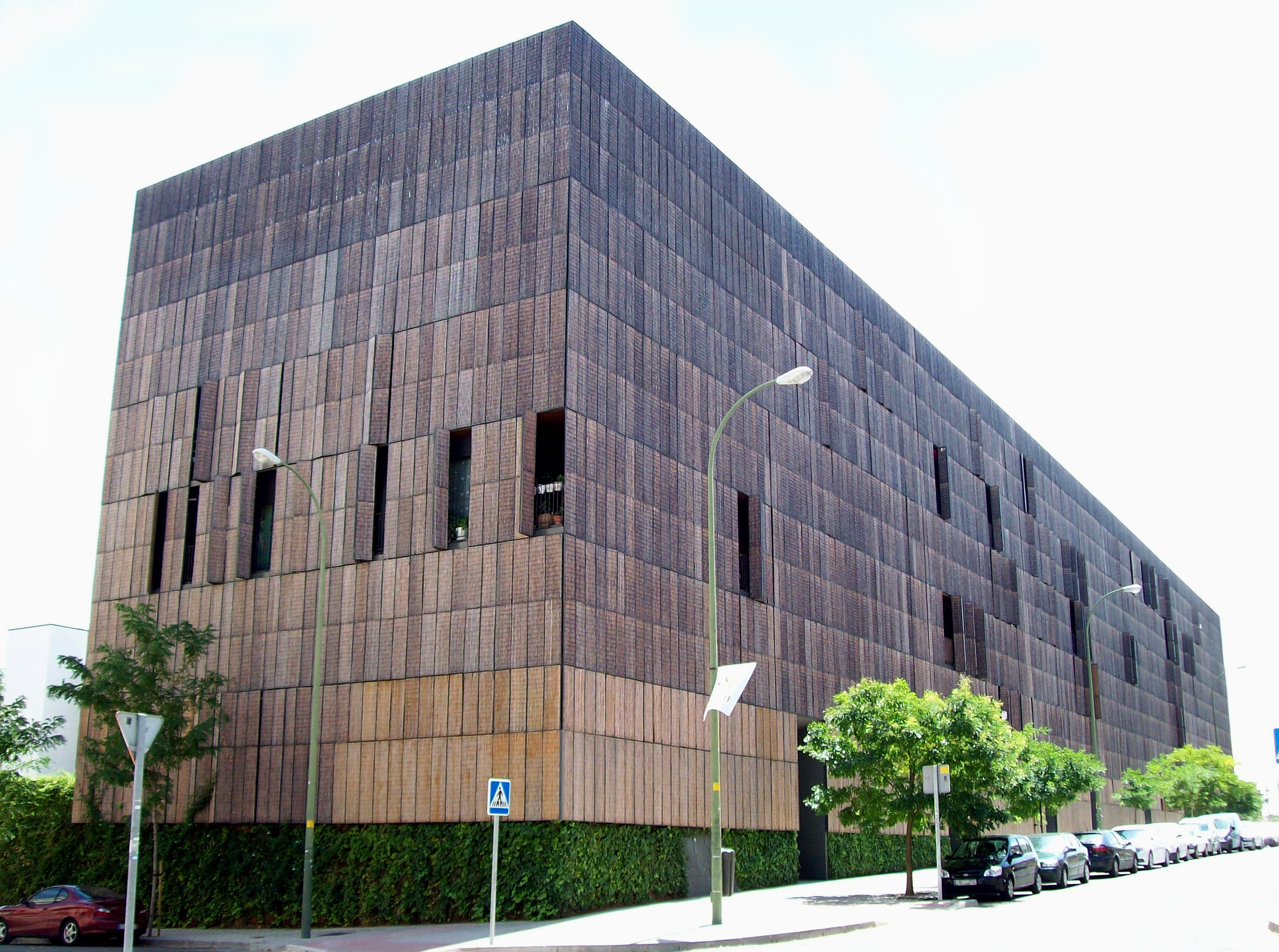 View of Bamboo Building in Madrid (Spain) from the north-west angle.